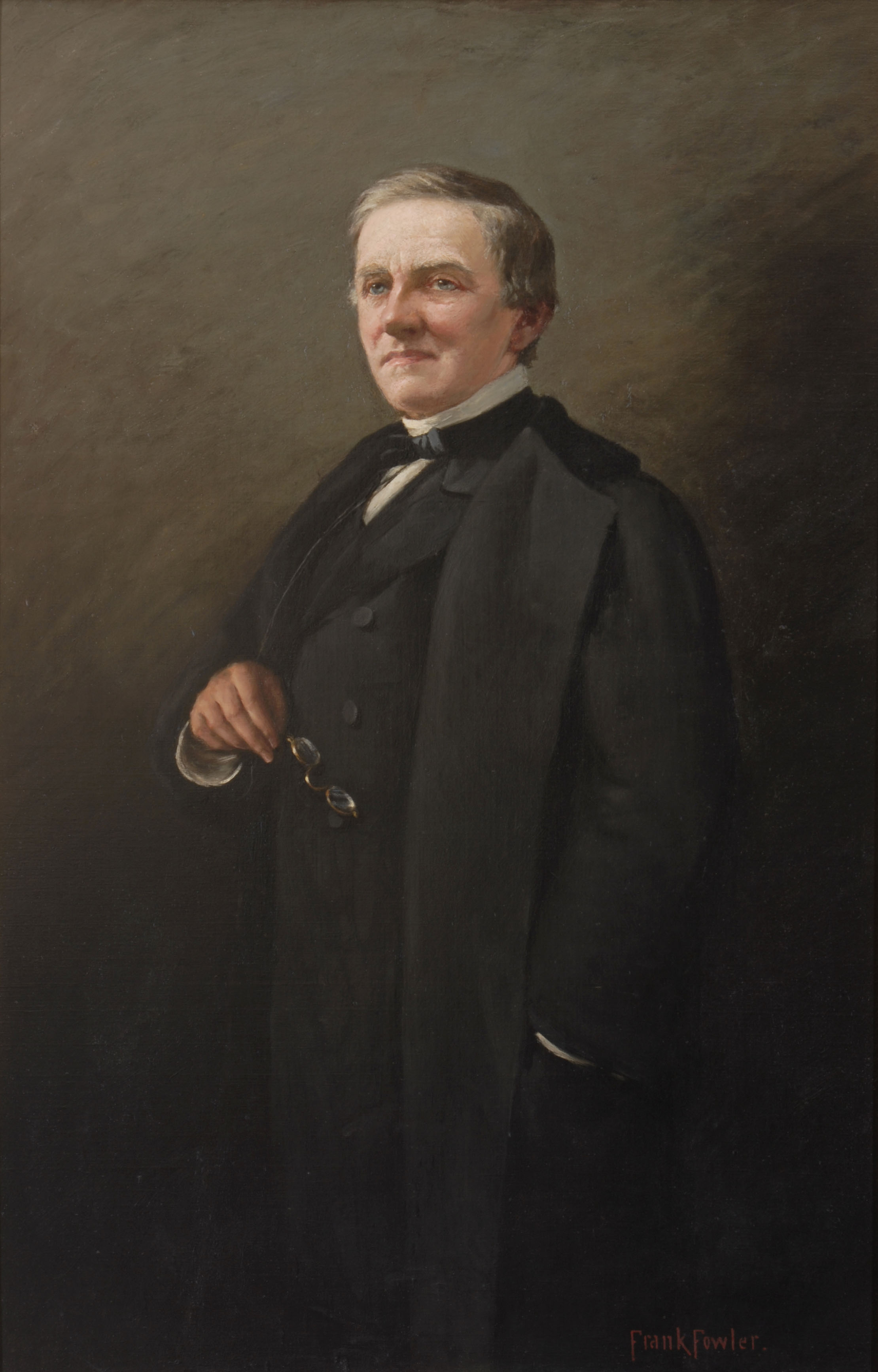 A portrait of New York Governor and 1876 U.S. Presidential candidate Samuel Jones Tilden.